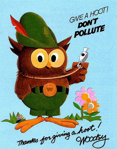 Woodsy Owl drawn by Rudolph Wendelin